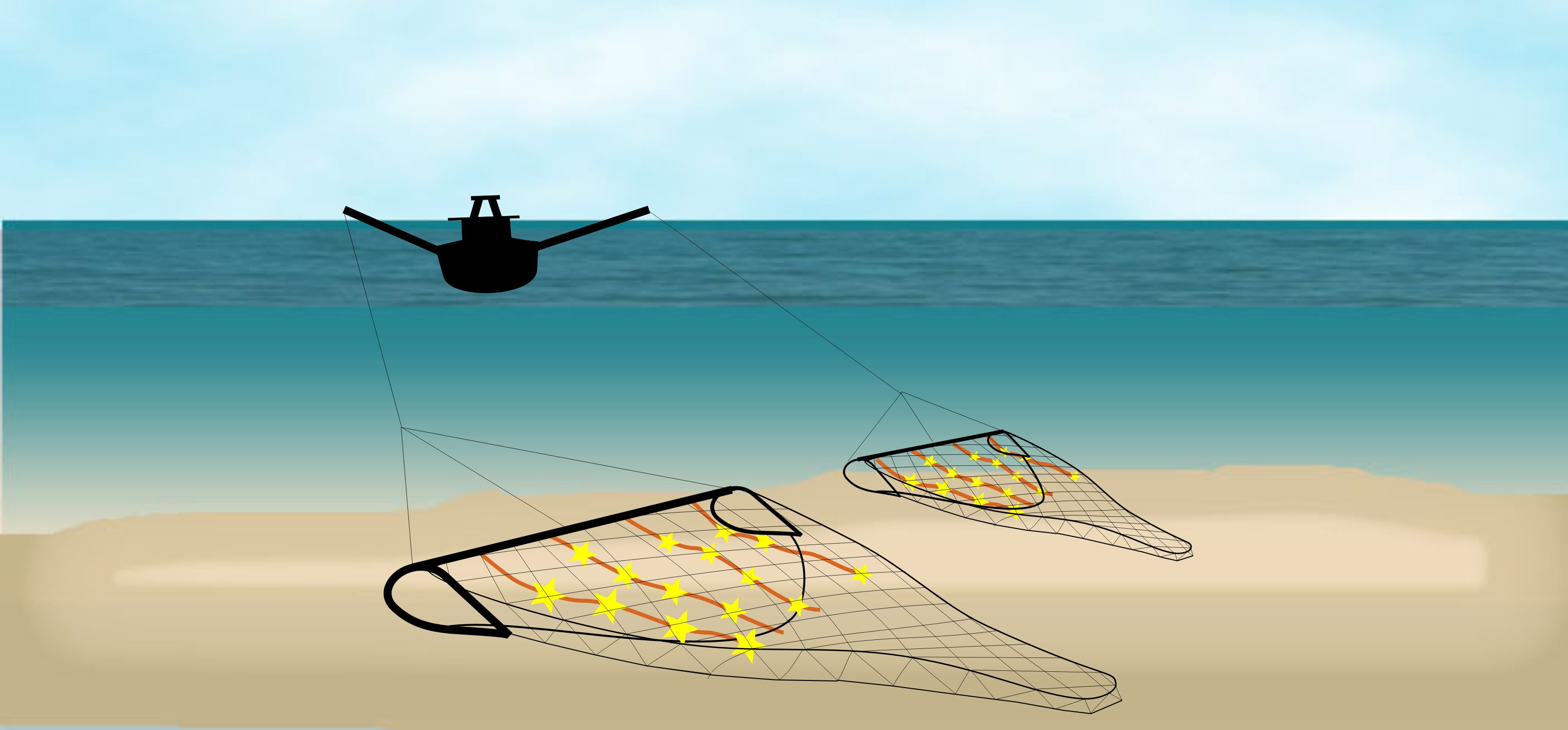 drawing fishing technique pulse fishery